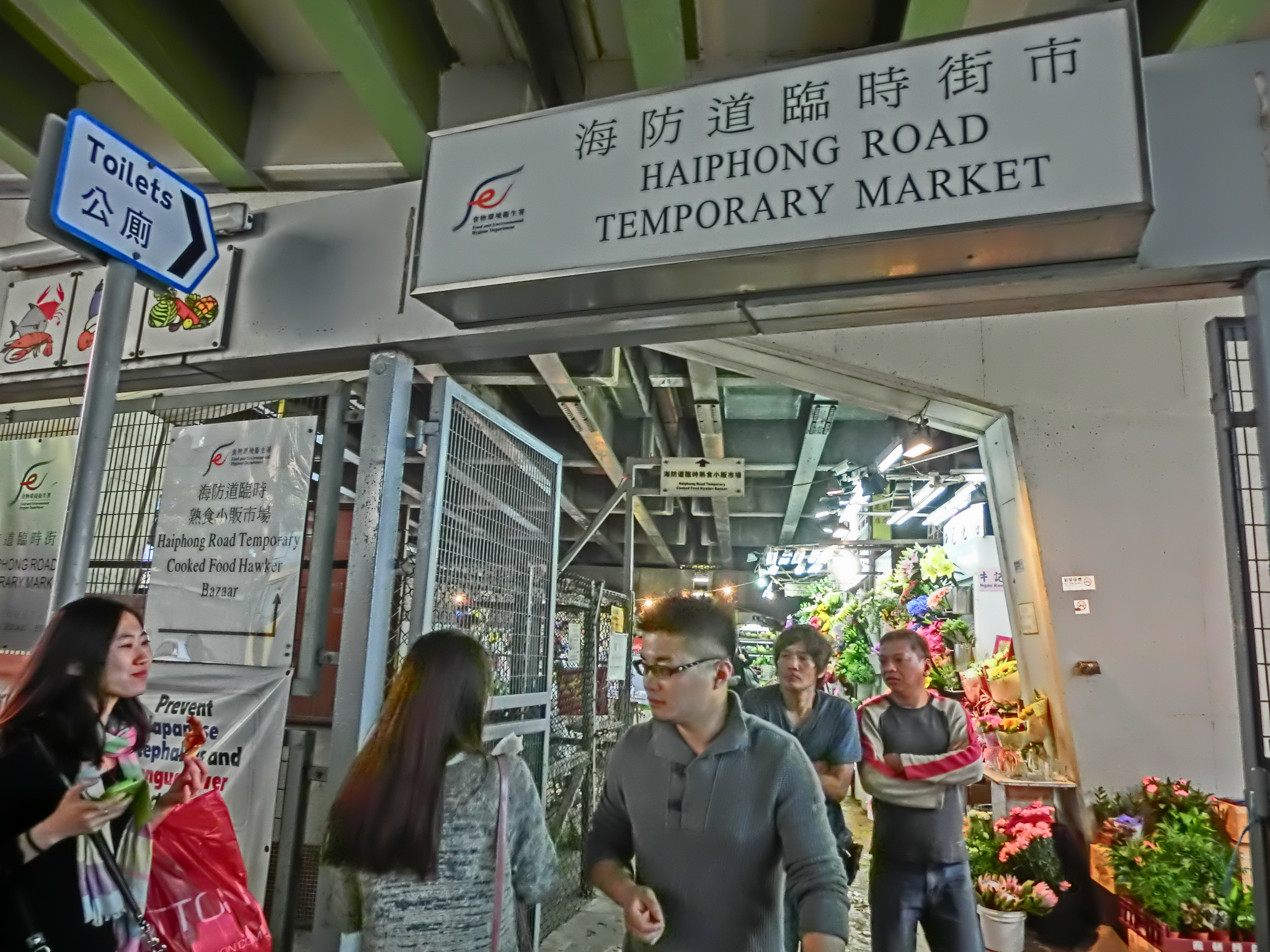 尖沙咀 海防道臨時街市. Haiphong Road Temporary Market, Tsim Sha Tsui, Hong Kong